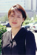 Jianmei Guo of China - Director and Lawyer, Women's Law Studies and Legal Aid Center